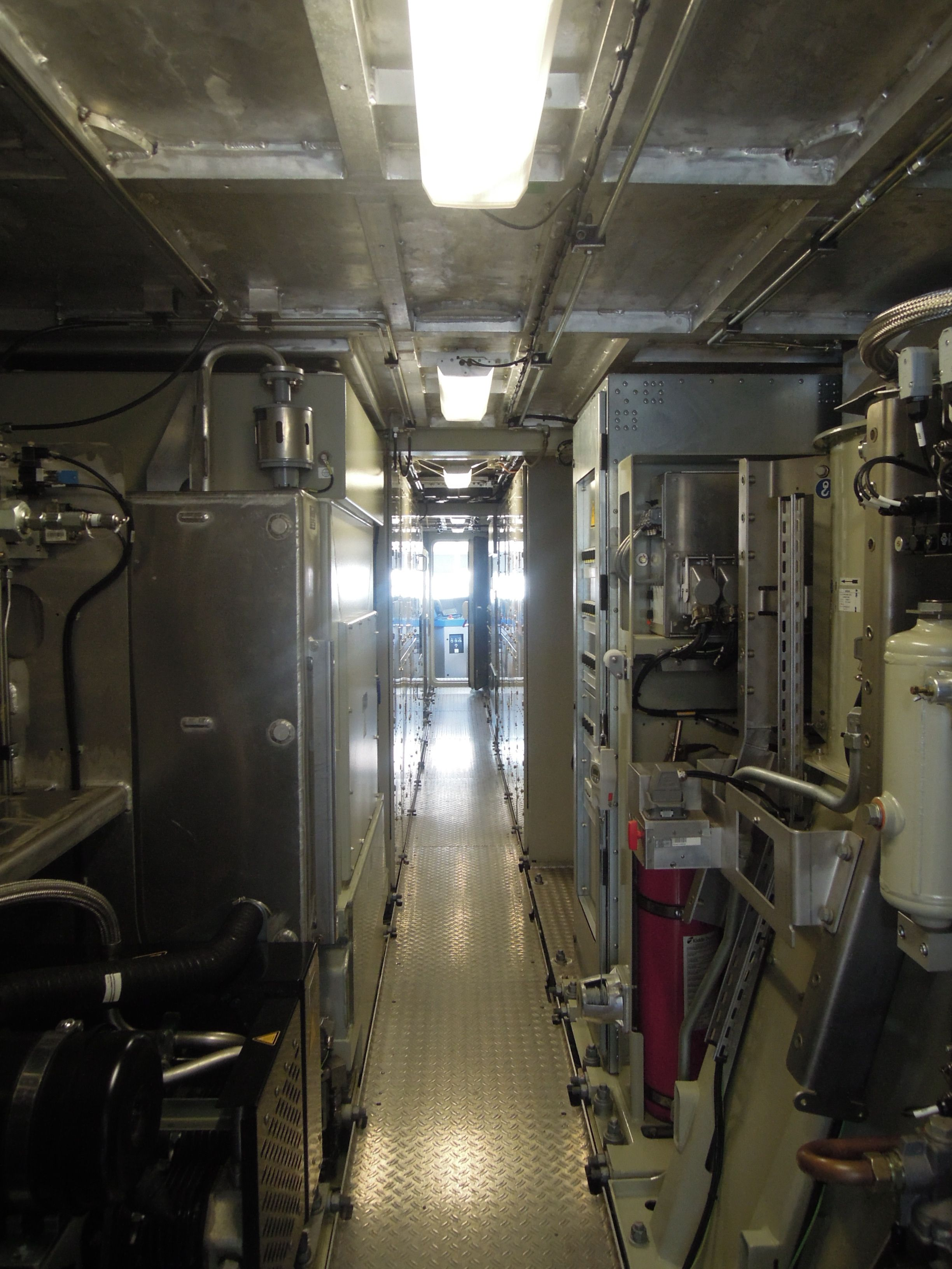 Electric locomotive Siemens Vectron at the Czech Raildays 2013 trade fair in Ostrava, Czech Republic